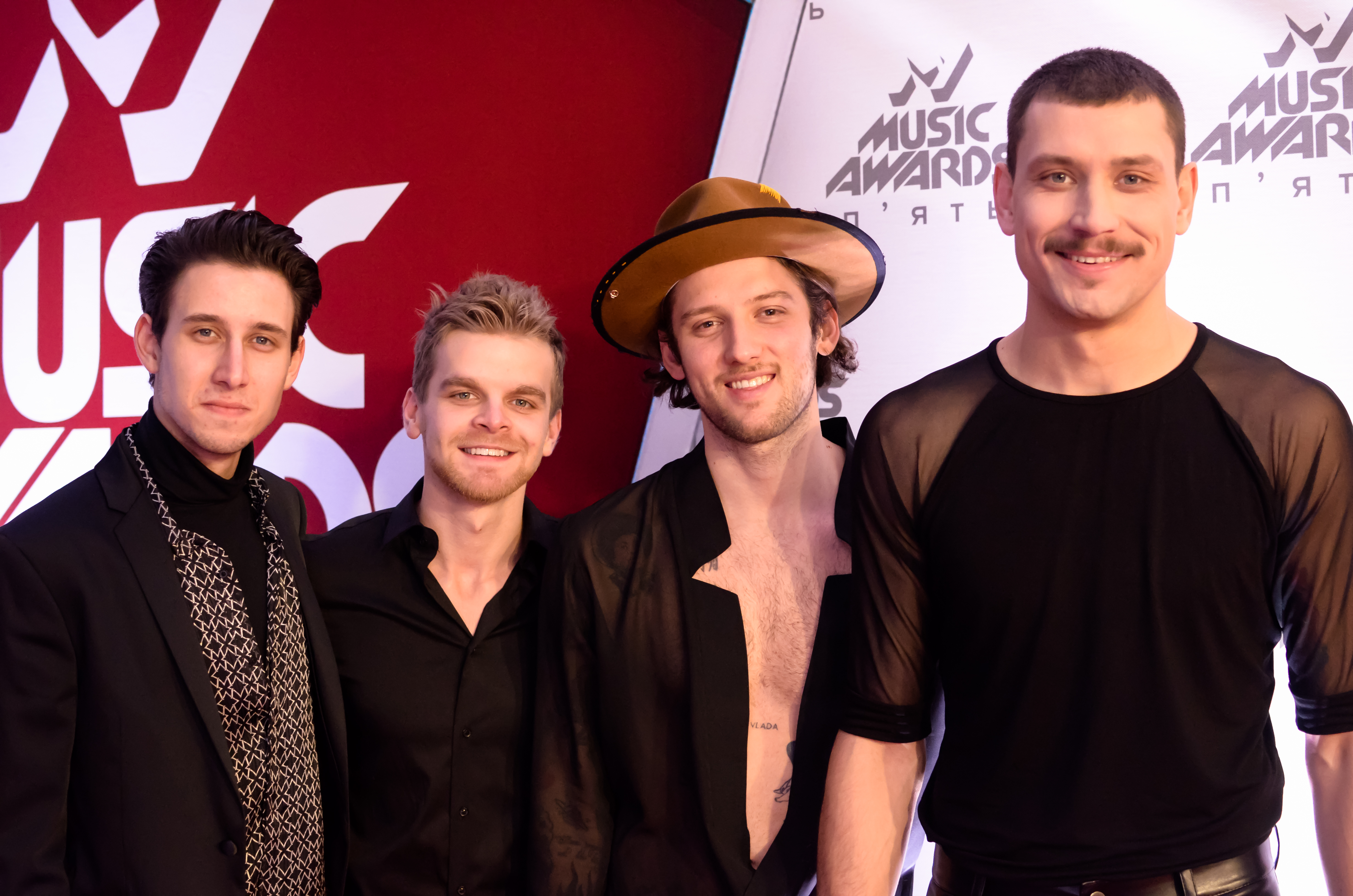 Kadnay at M1 Music Awards 2019